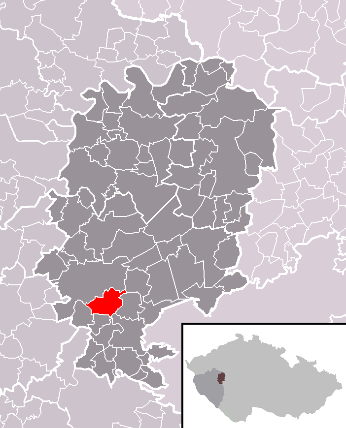 Location of Kamenný Újezd municipality within Rokycany District and within identical administrative area of Rokycany as a Municipality with Extended Competence.